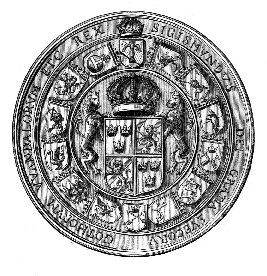 The royal seal of King Sigismund of Poland and Sweden